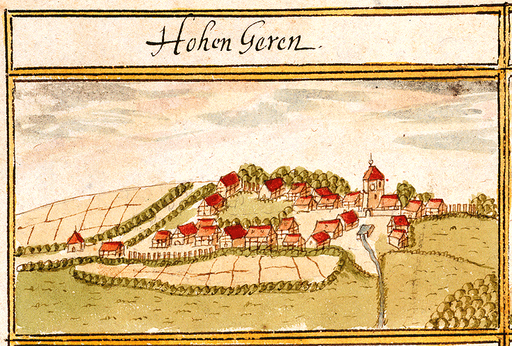 View of Hohengehren, Baltmannsweiler, from the forest register books created by Andreas Kieser